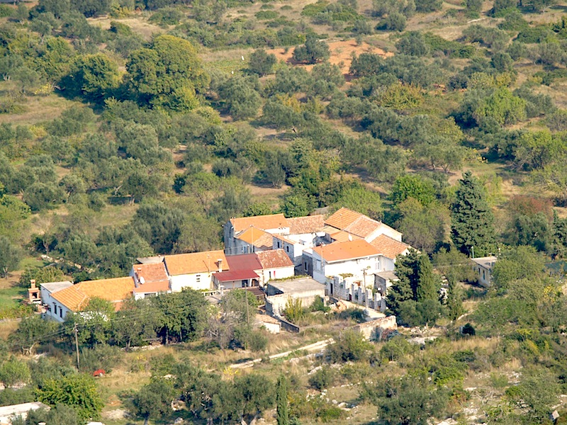 view from peak Semić